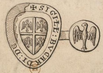 seal of Bouchard I de Marly (d. 1226), recorded on a charter of the Abbey of St. Victor, dated 1225. This image is from a piece of paper attached to a watercolor of a depiction of Bouchard in a stained glass window at Chartres (the watercolor is dated to the 17th century, the printed piece of paper may be younger)[1]. A better drawing of this seal is found in MAQUET (Adrien), Les seigneurs de Marly, recherches historiques et archéologiques sur la ville et seigneurie de Marly-le-Roi avec notes, armoiries et sceaux... préface de Victorien Sardou. Paris, Imprimerie et librairie universelle, 1882. [2]. The single eagle (or "alerion") in a circle is shown on the back of the seal.